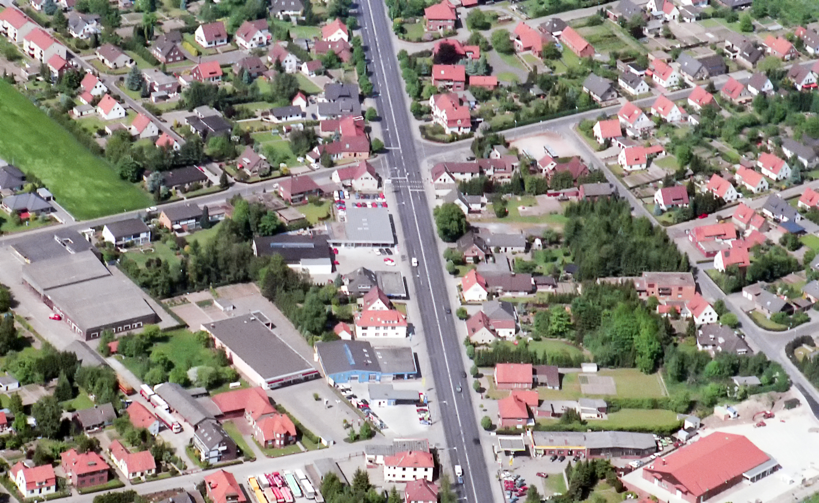 Bassum